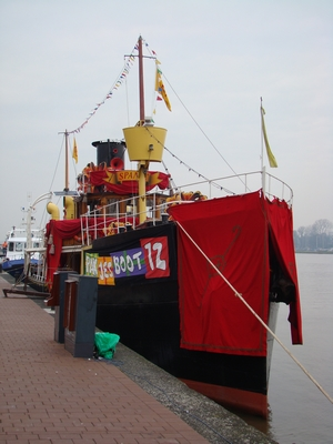 Gifts boat 12 Sinteklaas at Kampen